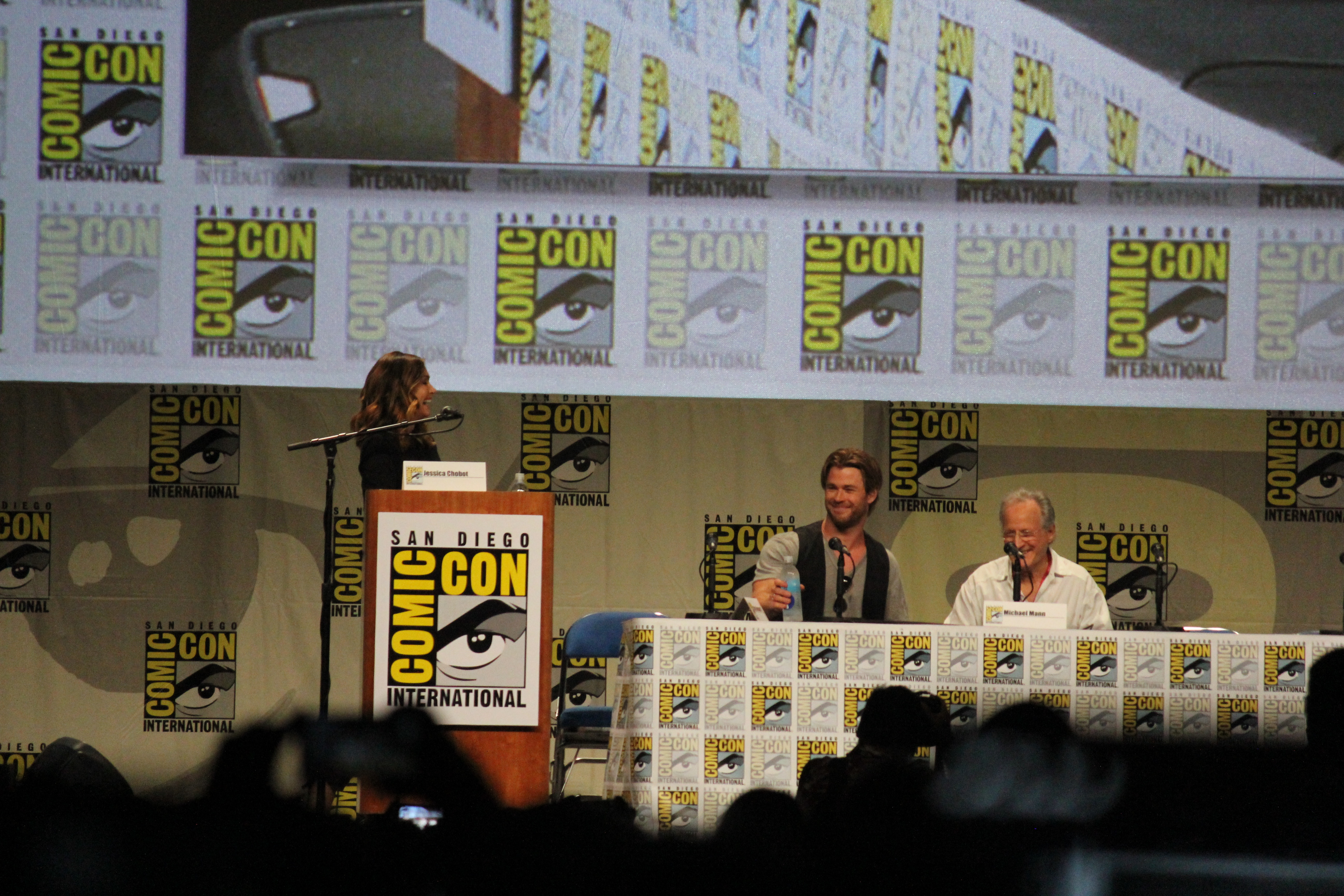 Chris Hemsworth and guest SDCC 2014